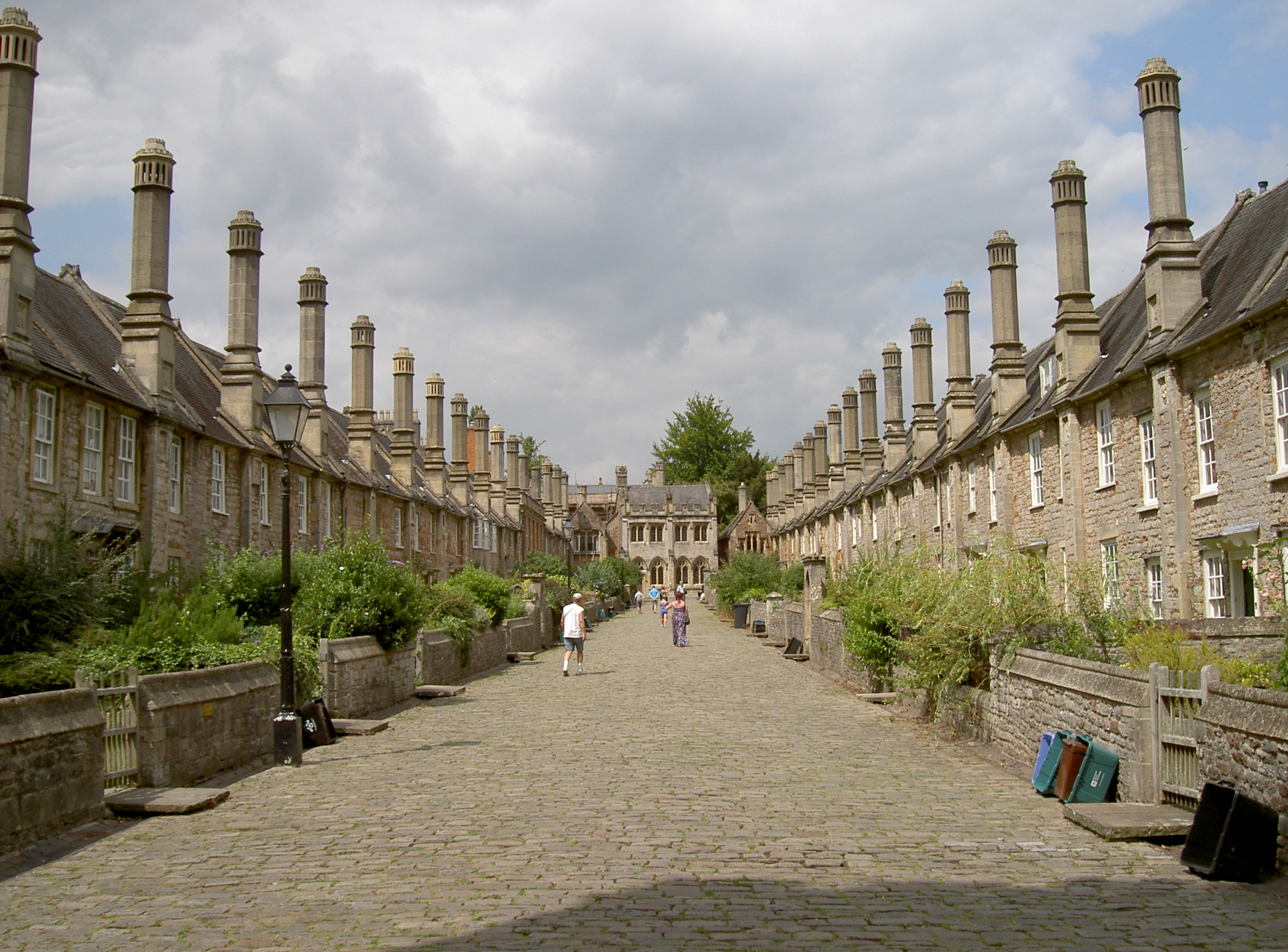 Vicar's Close